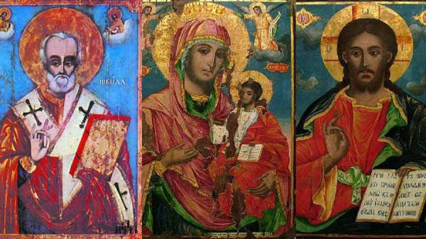 Bansko Icon Gallery Icons